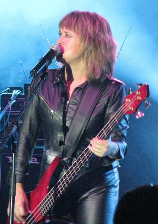 Suzi Quatro, wearing black leather, plays a bass guitar while she sings into the microphone. A photograph taken on September 26, 2007 (using a Canon PowerShot S5 IS) during a concert at the AIS Arena, Canberra, Australia.